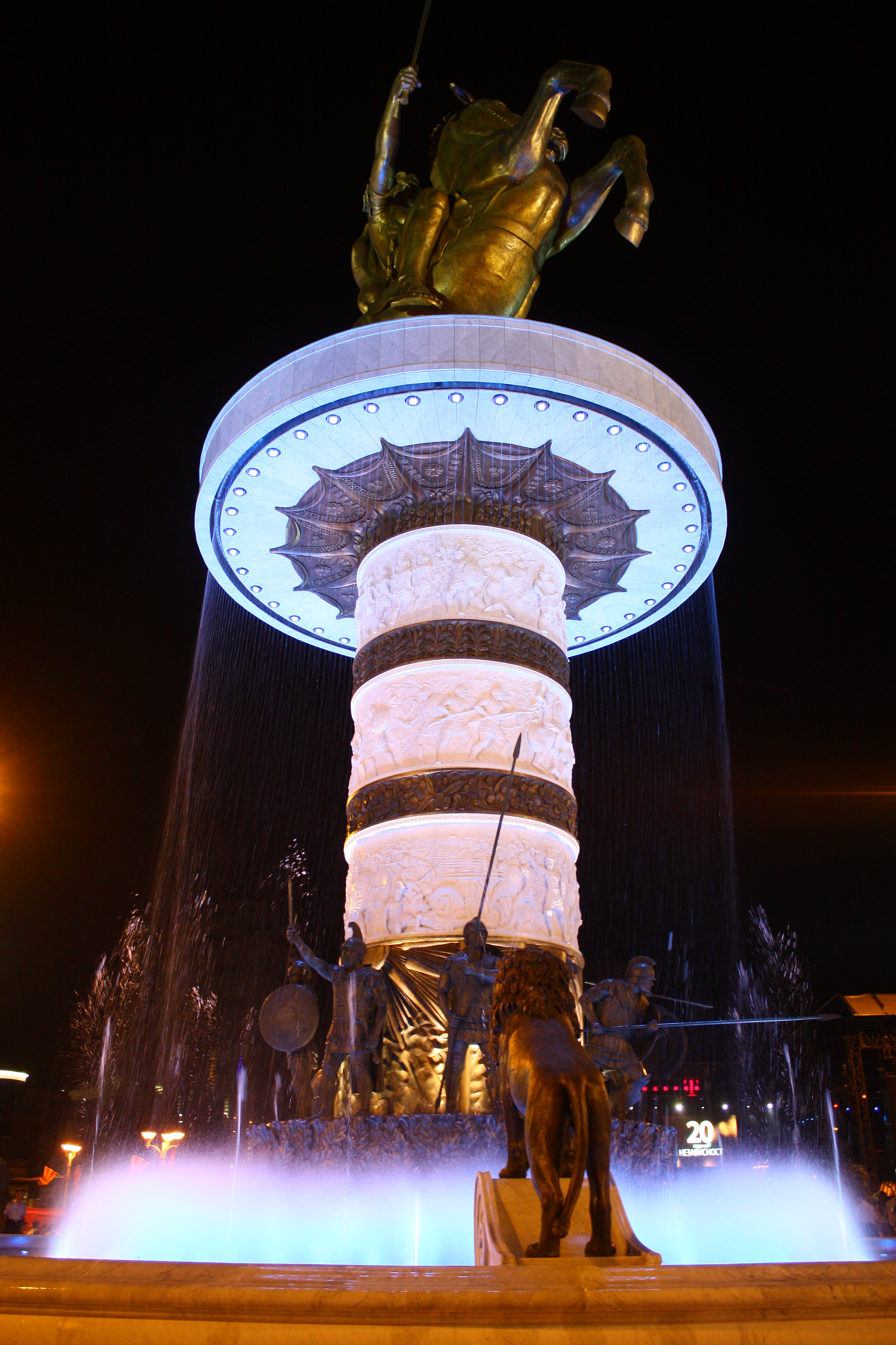 Aleksandar Makedonski